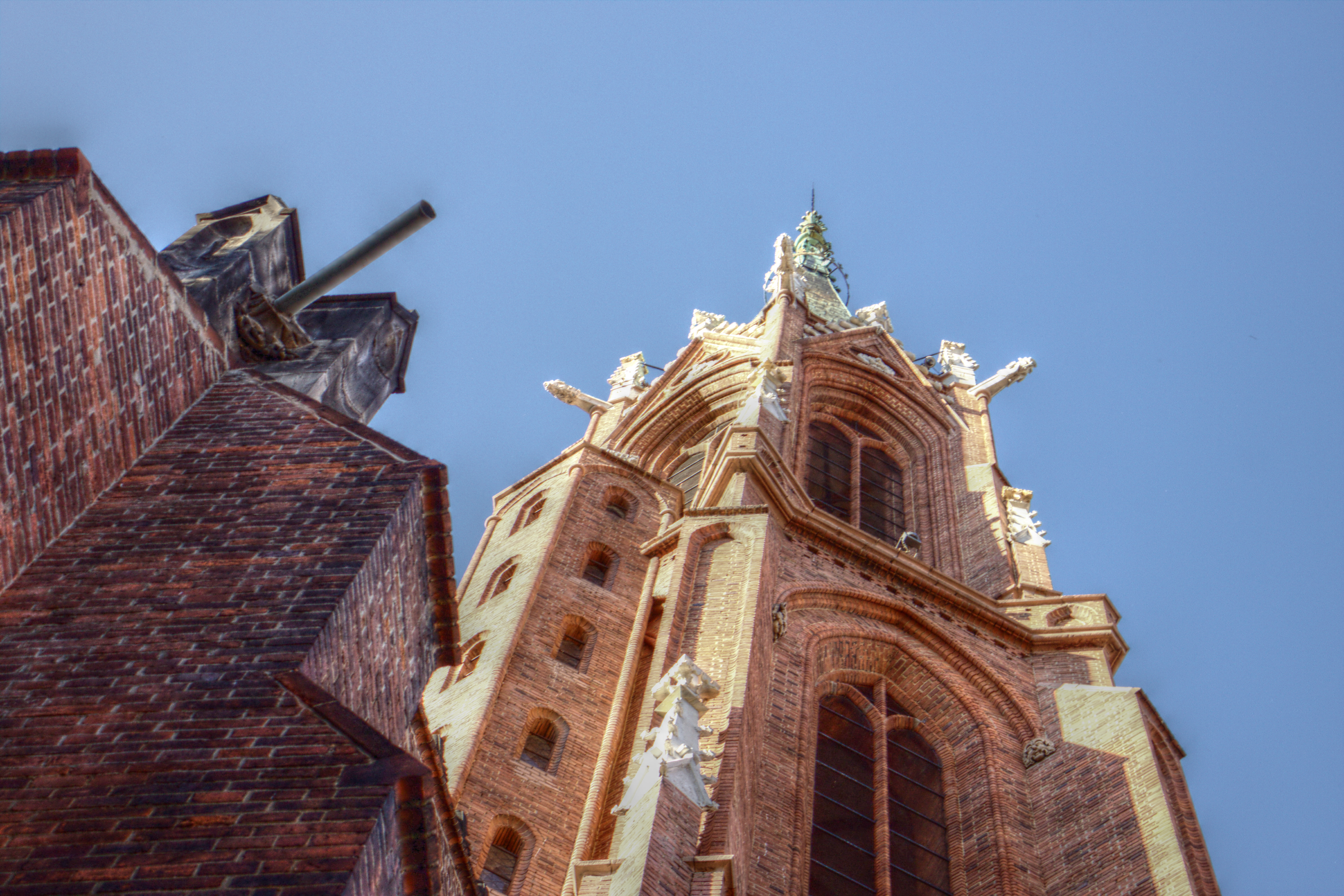 Main tower of the Assumption of Virgin Mary Church, Bielawa, Poland Luminance HDR 2.3.0 tonemapping parameters: Operator: Mantiuk06 Parameters: Contrast Mapping factor: 0.2 Saturation Factor: 1 Detail Factor: 1 PreGamma: 0.6